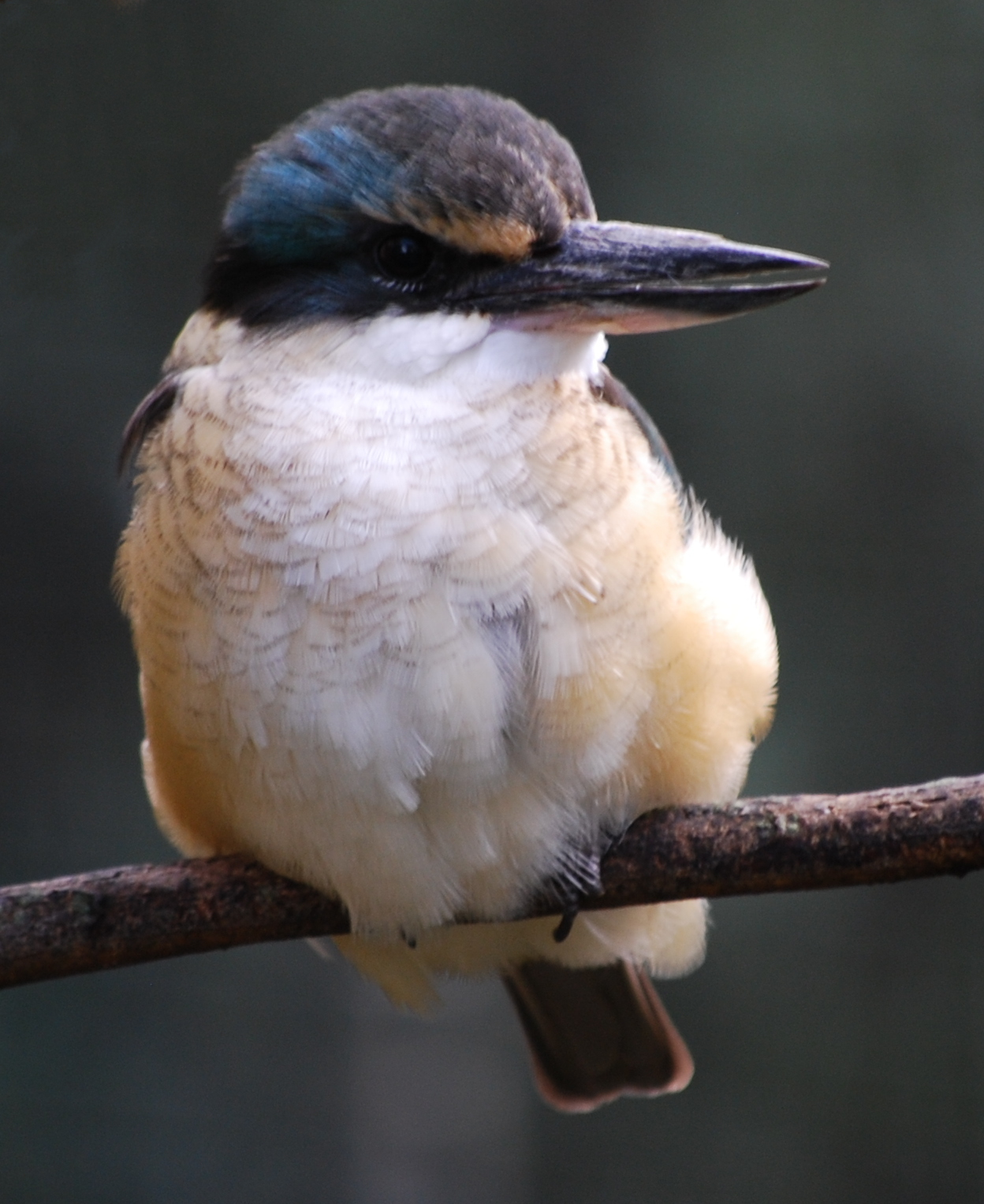 Sacred Kingfisher (Todiramphus sanctus) in a walk-through aviary at Cleland Wildlife Park, South Australia